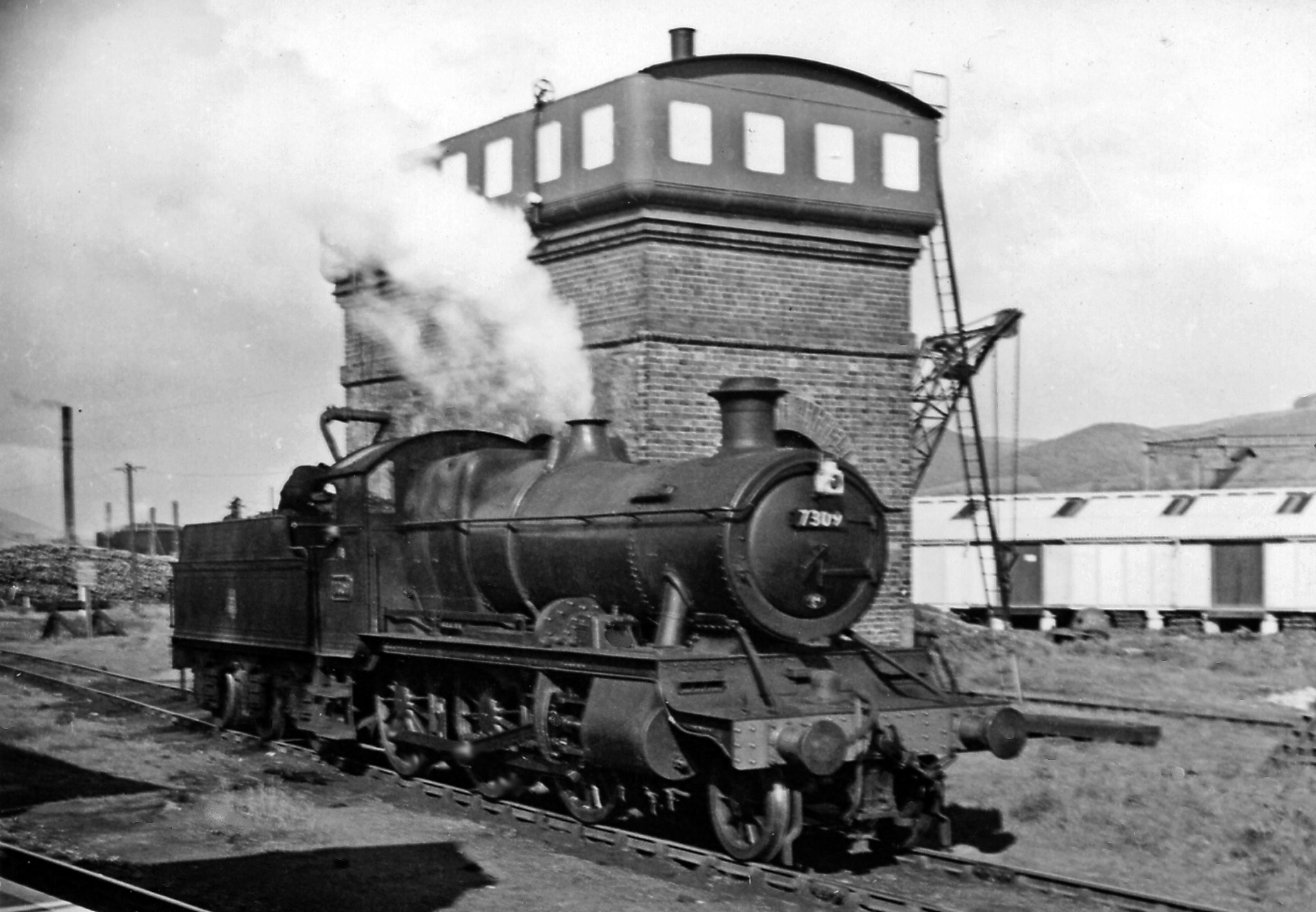 GW 2-6-0 at Welshpool station. View NE from Down platform: ex-Cambrian Whitchurch - Oswestry - Welshpool - Machynlleth - Aberystwyth/Pwllheli main line. In the former Locomotive Yard (closed 1954, but large water-tank remains) is Churchward 43XX 2-6-0 No. 7309 (built 11/21, withdrawn 9/62). In the distance is Long Mountain (1,277 ft.).